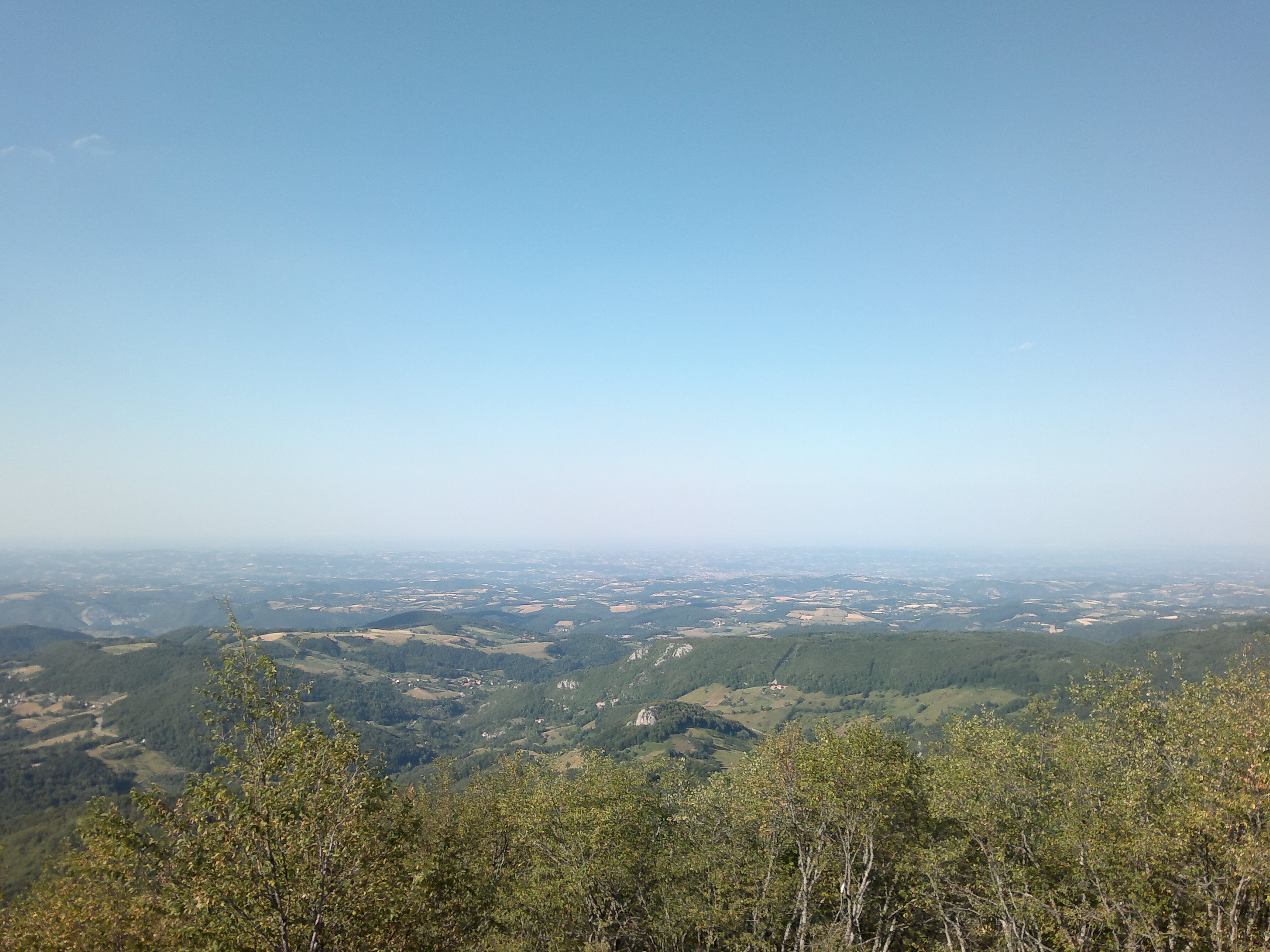 A view from the top of Veliki Povlen